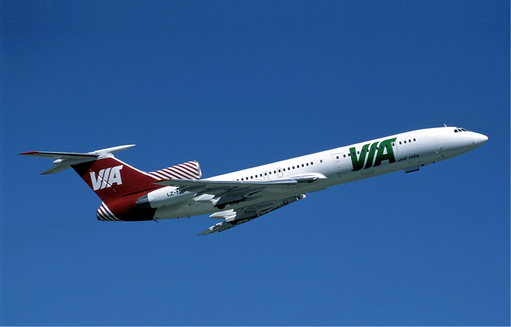 LZ-MIK, Air VIA Tupolev Tu-154M, Euroairport